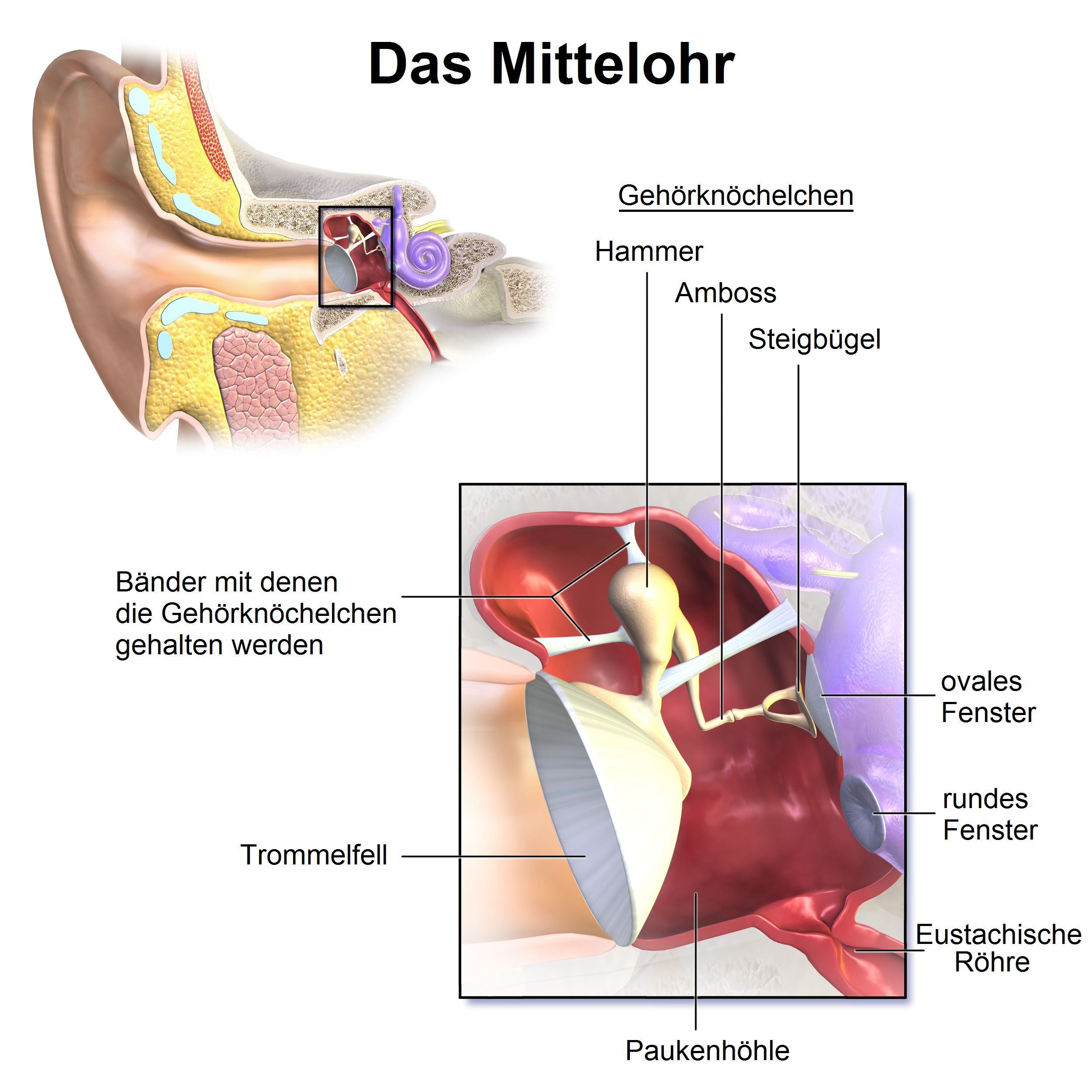 Middle ear, German version